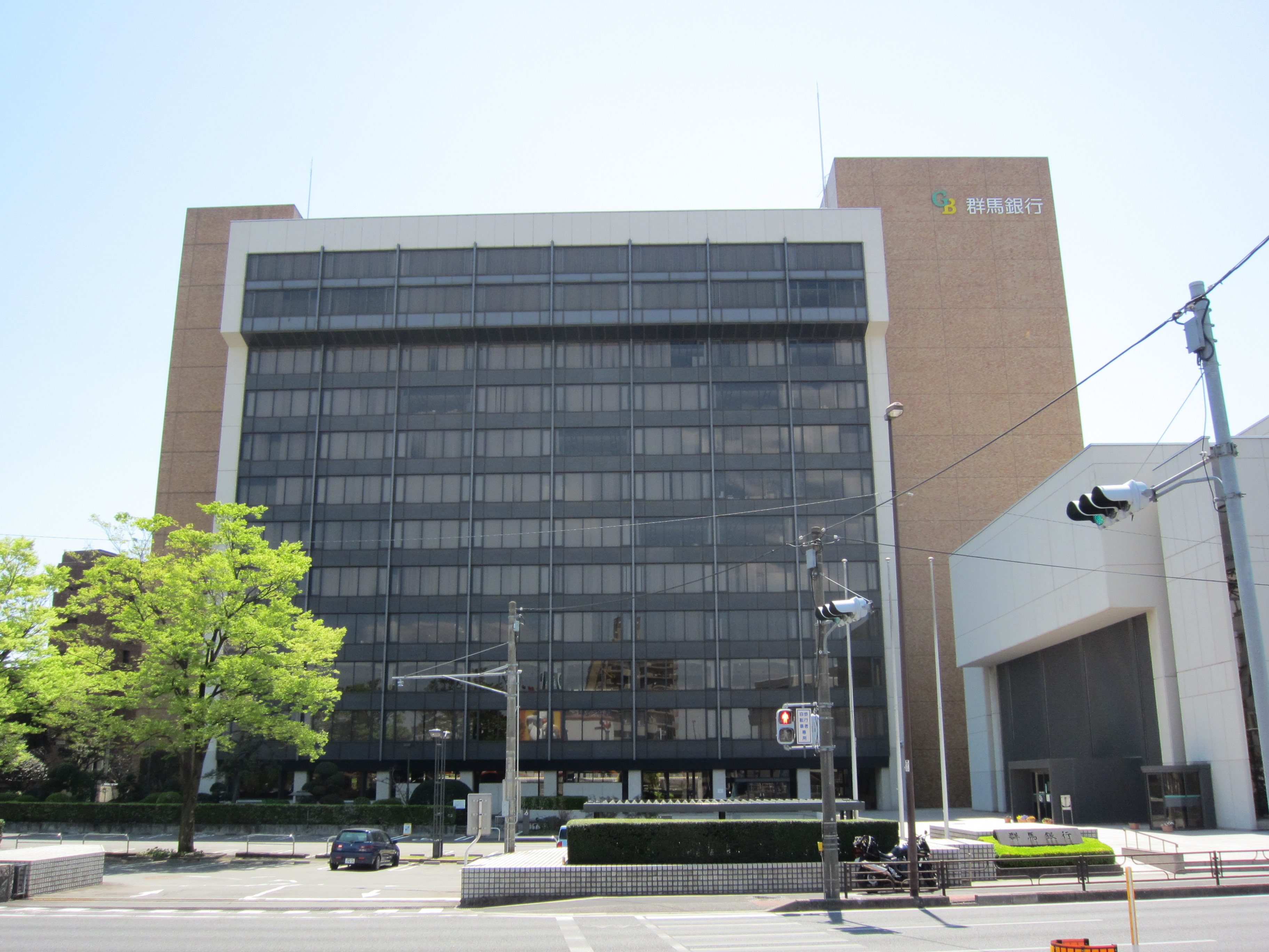 Gunma Bank